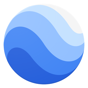 Logo of Google Earth